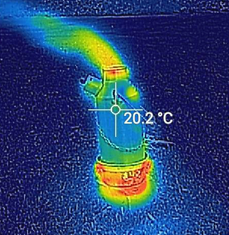 Thermal image of a Ghillie kettle, filled with cold water and recently lit. The image was acquired with a CAT S60.